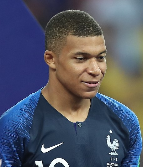 Kylian Mbappé Russia 2018